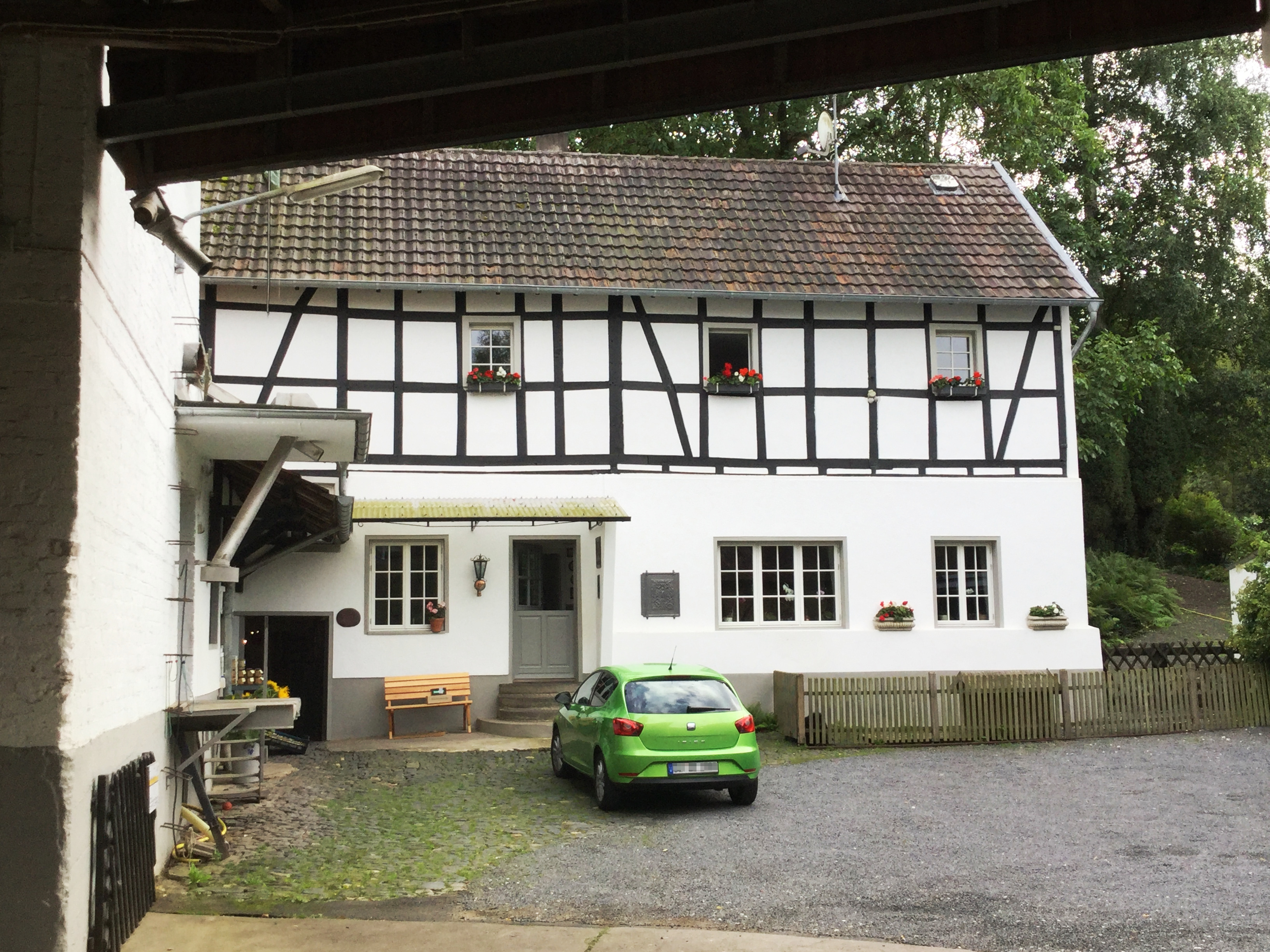 Broichmühle, Im Bruch, Villip